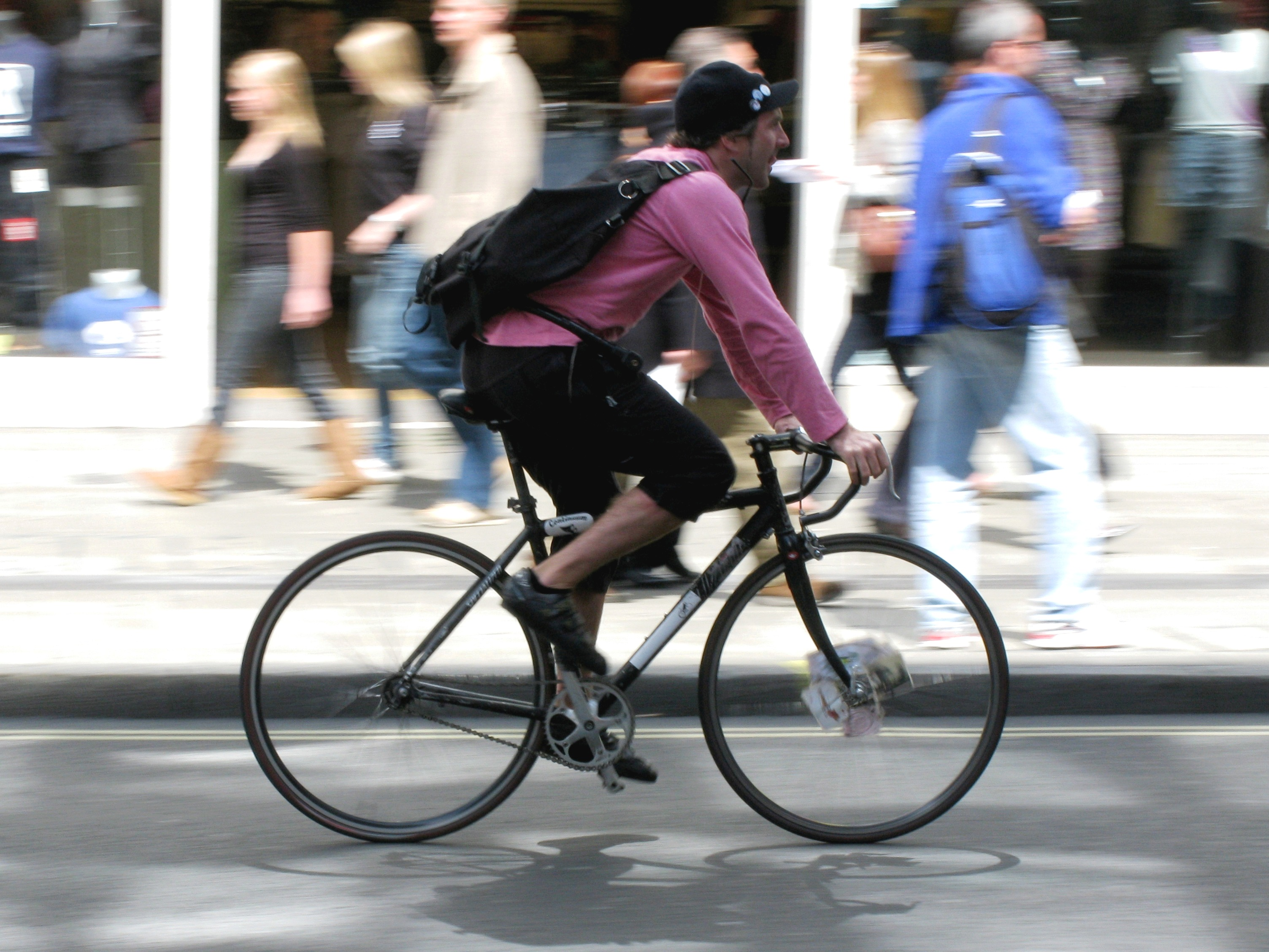 London bicycle courier, Oxford Street